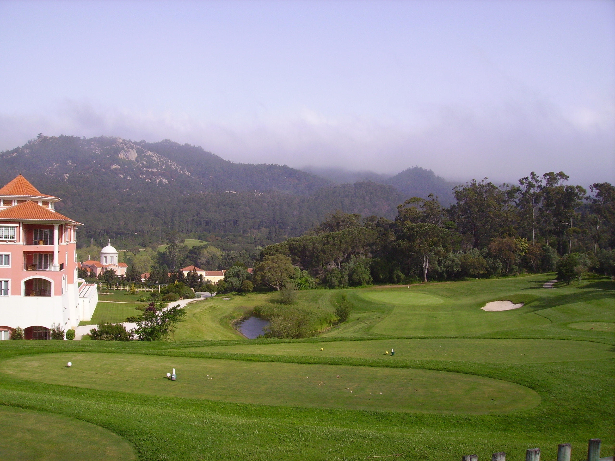 very beautiful golf near lisbon , Гольф very green (gorufu) Located within a 545-acre National Park on the southern Sintra Mountains, Penha Longa Hotel & Golf Resort is a breathtakingly beautiful resort which encompasses a luxurious hotel, a nineteenth century palace originally founded as a monastery in the fourteenth century, two spectacular golf courses and a stunning Six Senses Spa. Once the retreat for the Royal Family of Portugal, Penha Longa lies just 16 miles or 25 kilometres (30 minutes drive) from downtown Lisbon, or a ten-minute drive from the beaches of Estoril and Cascais.